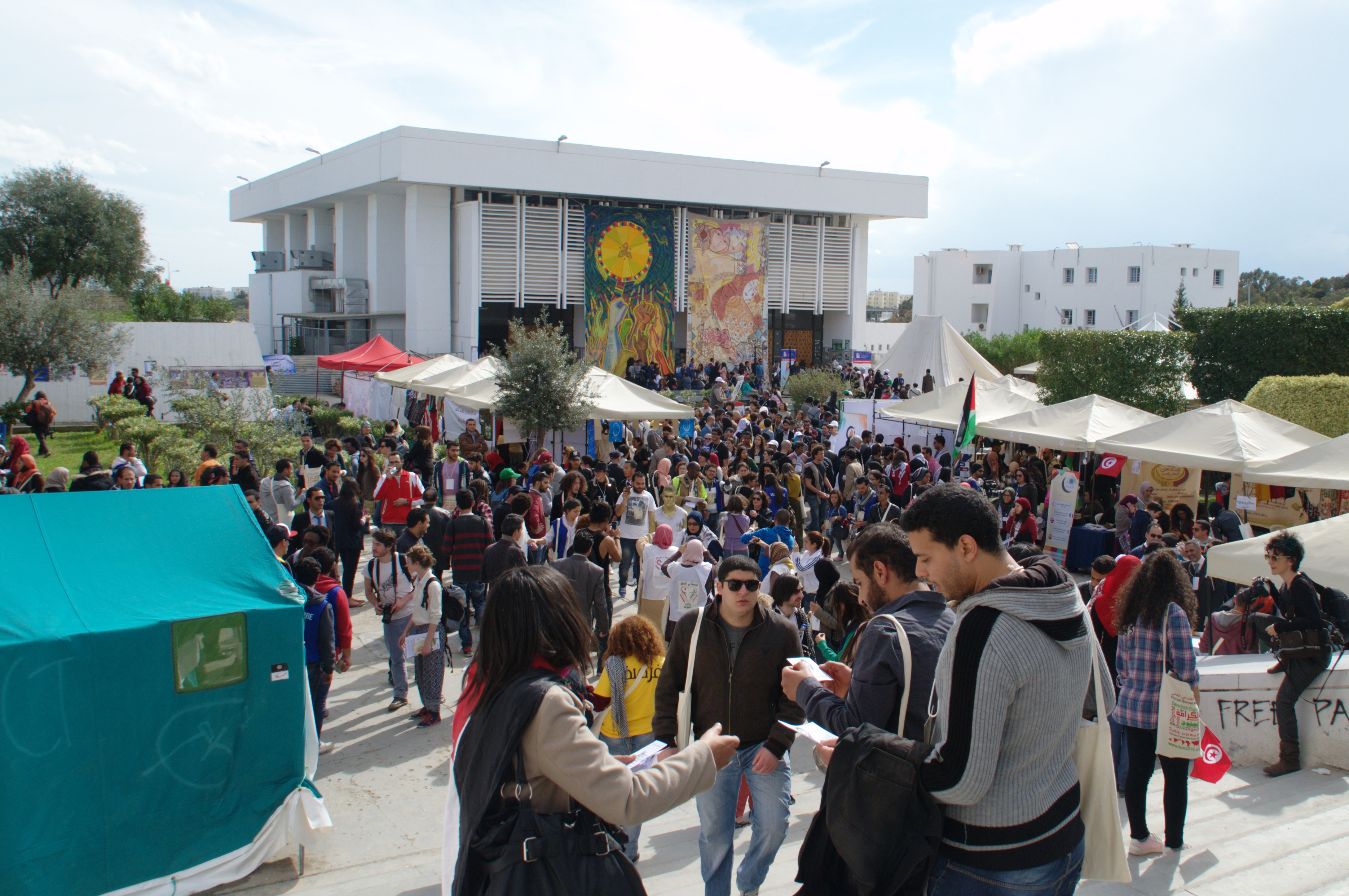 World Social Forum in Tunis